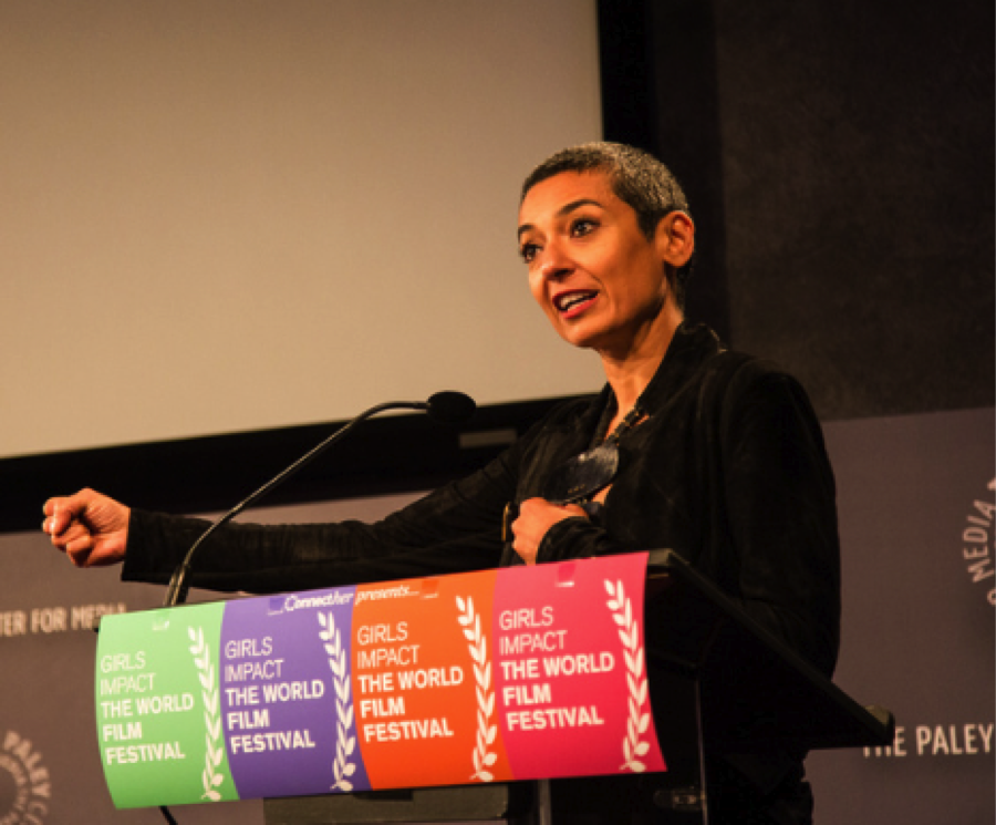 Zainab Salbi, 2014